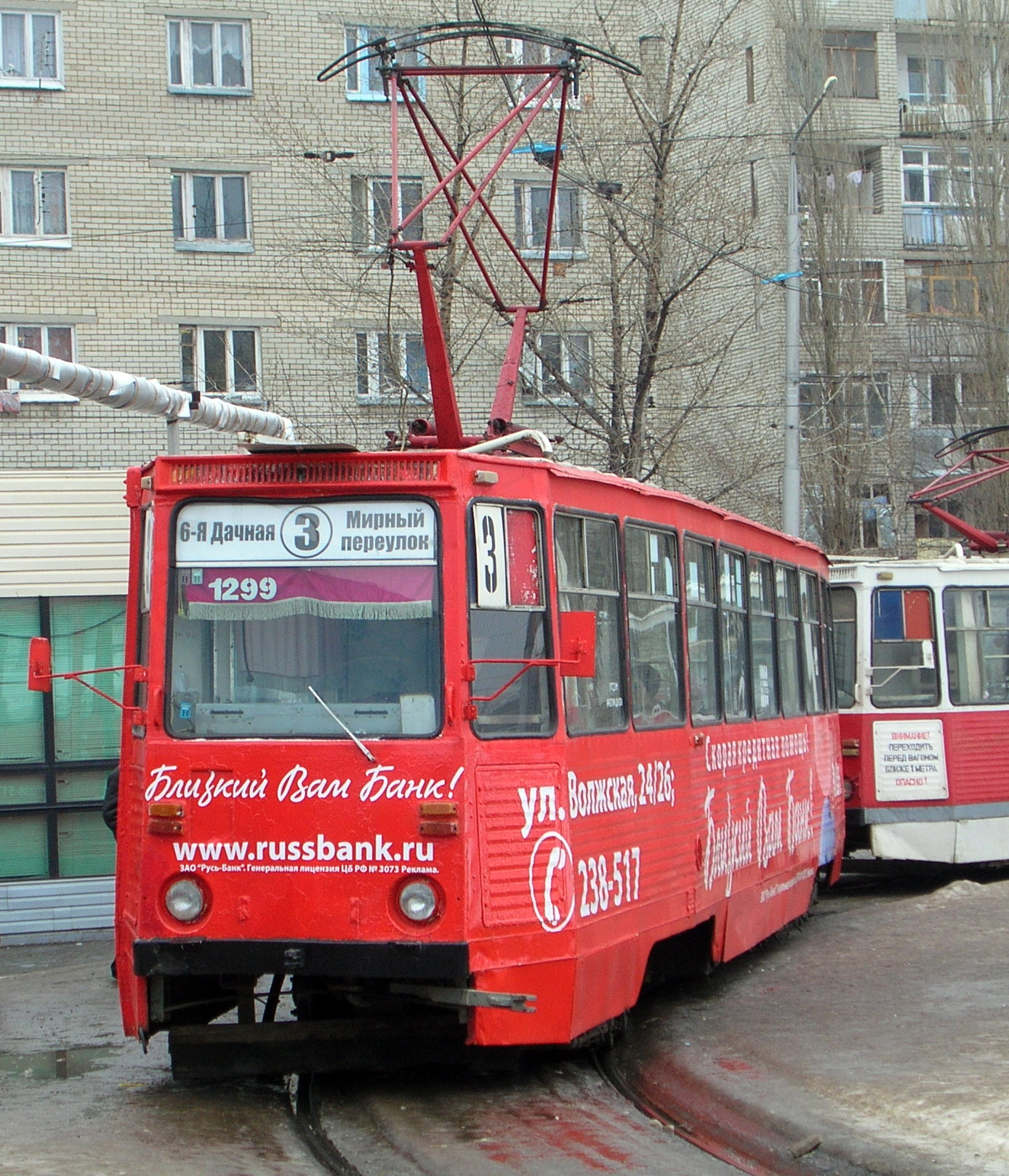 Tram car KTM-5 in Saratov (#1299)